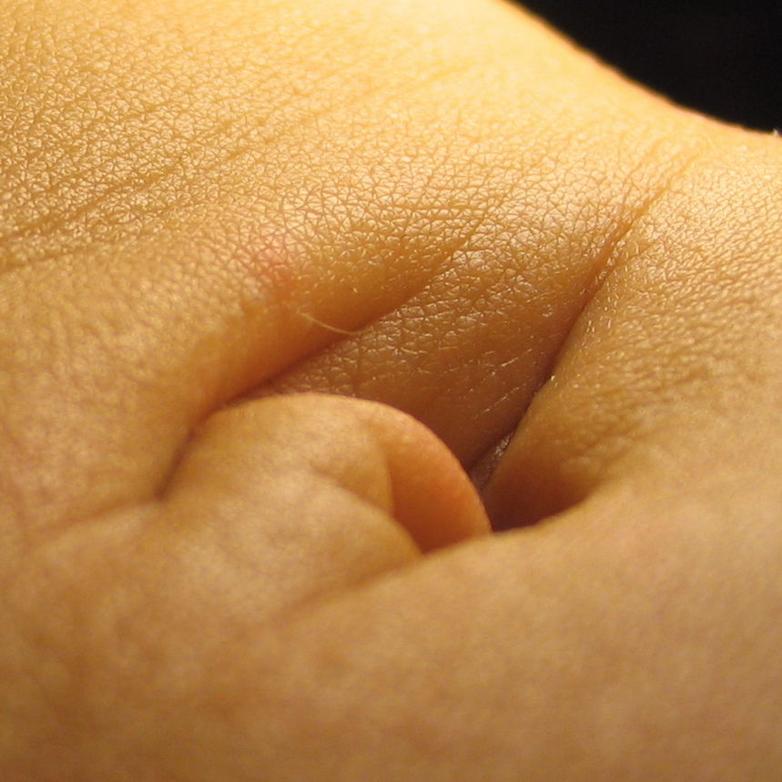 A navel, photo by RadRafe, on 8 Aug 2005.